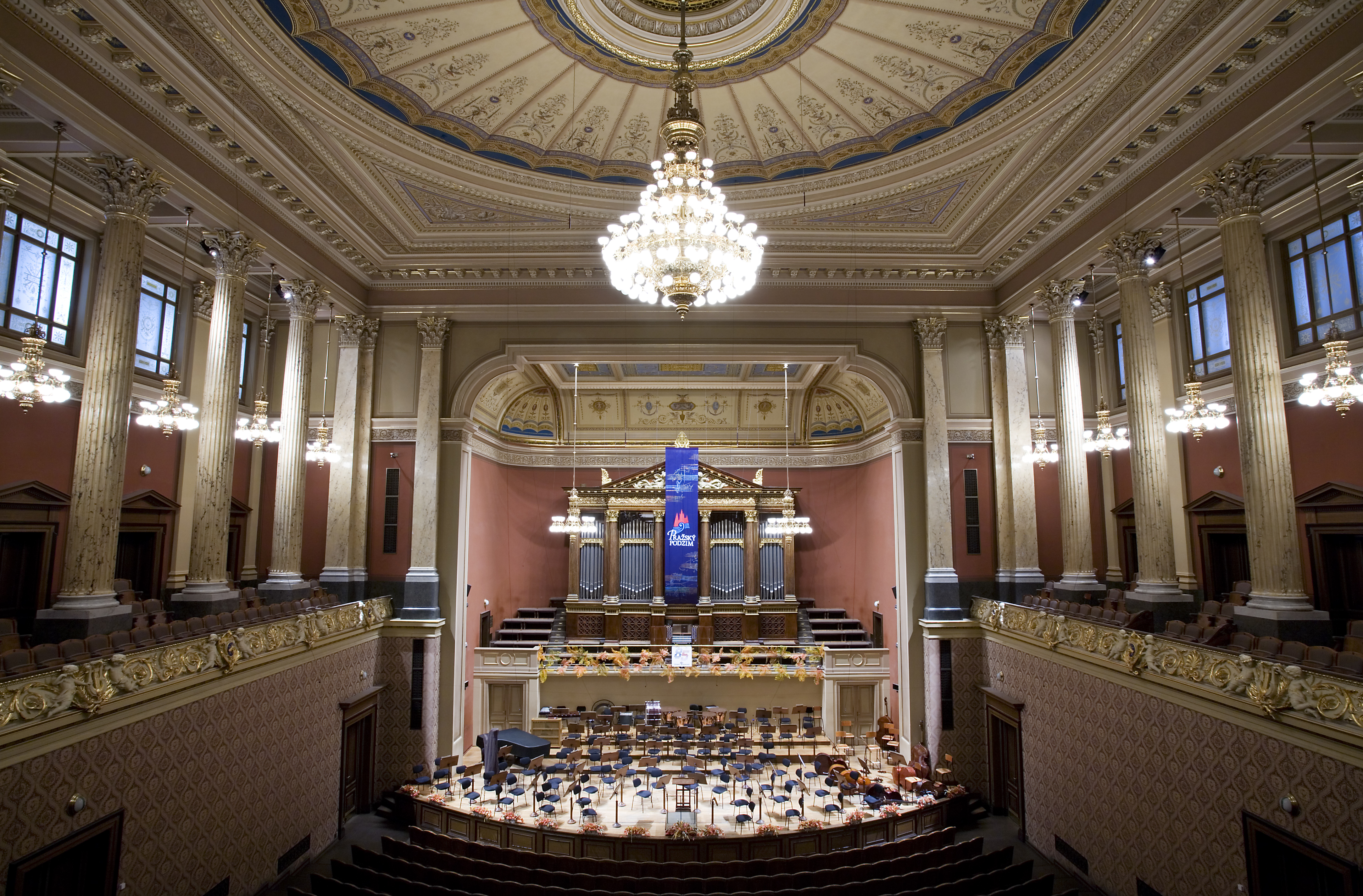 The Rudolfinum, Prague